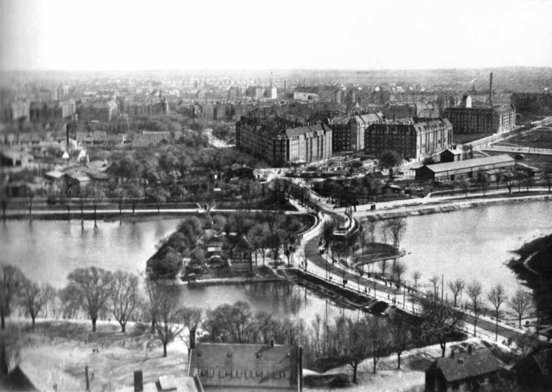 Revelinen viewed from Church of Our Saviour in Copenhagen, Denmark